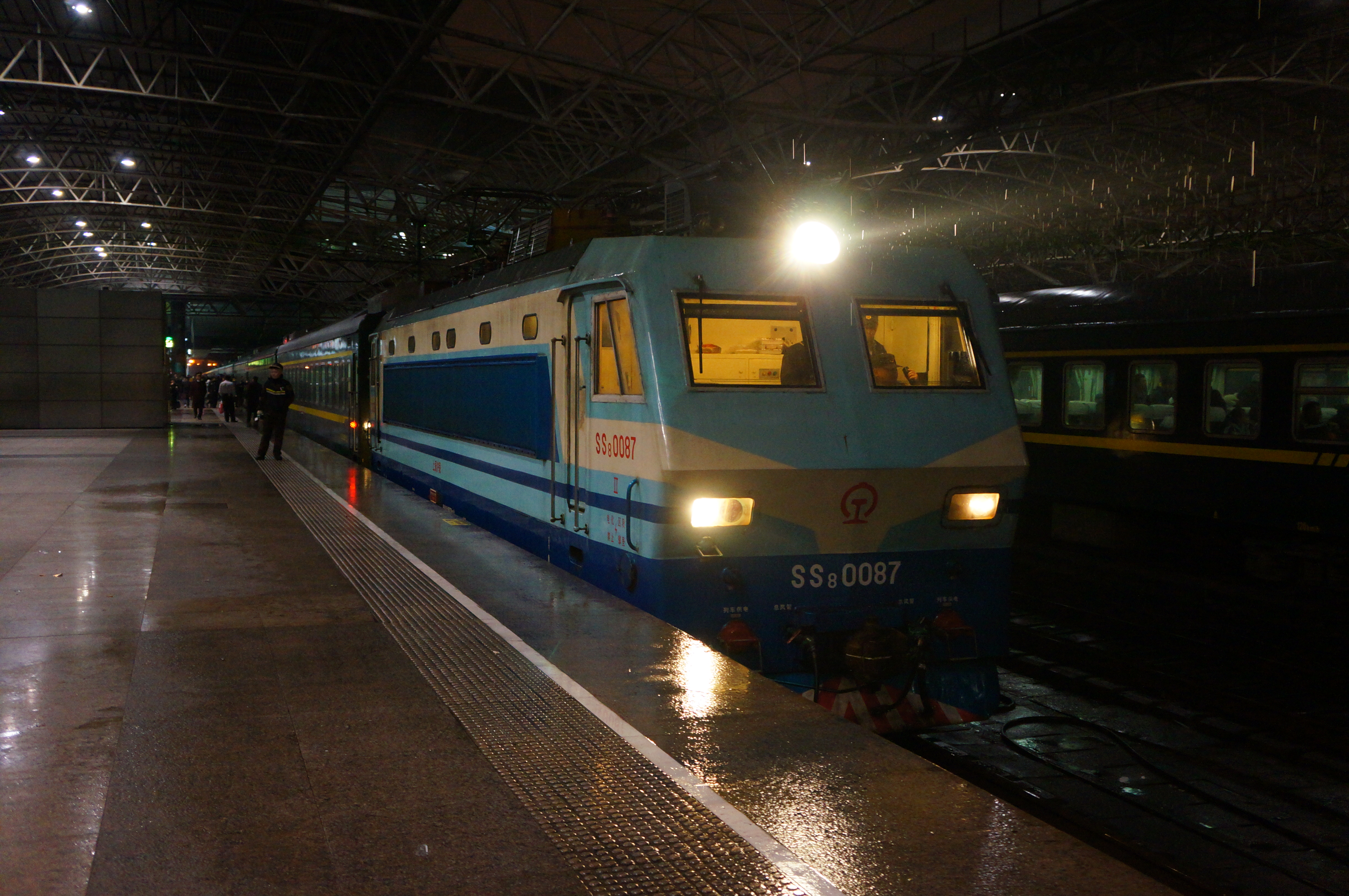 The SS8 actually surprised me